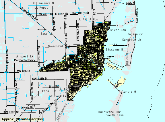 map of Miami,Florida showing city limits